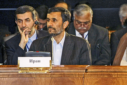 Mahmoud Ahmadinejad (front) and Esfandiar Rahim Mashaei (back on the left side) during the 2009 summit of the Shanghai Cooperation Organisation, Yekaterinburg, Russia